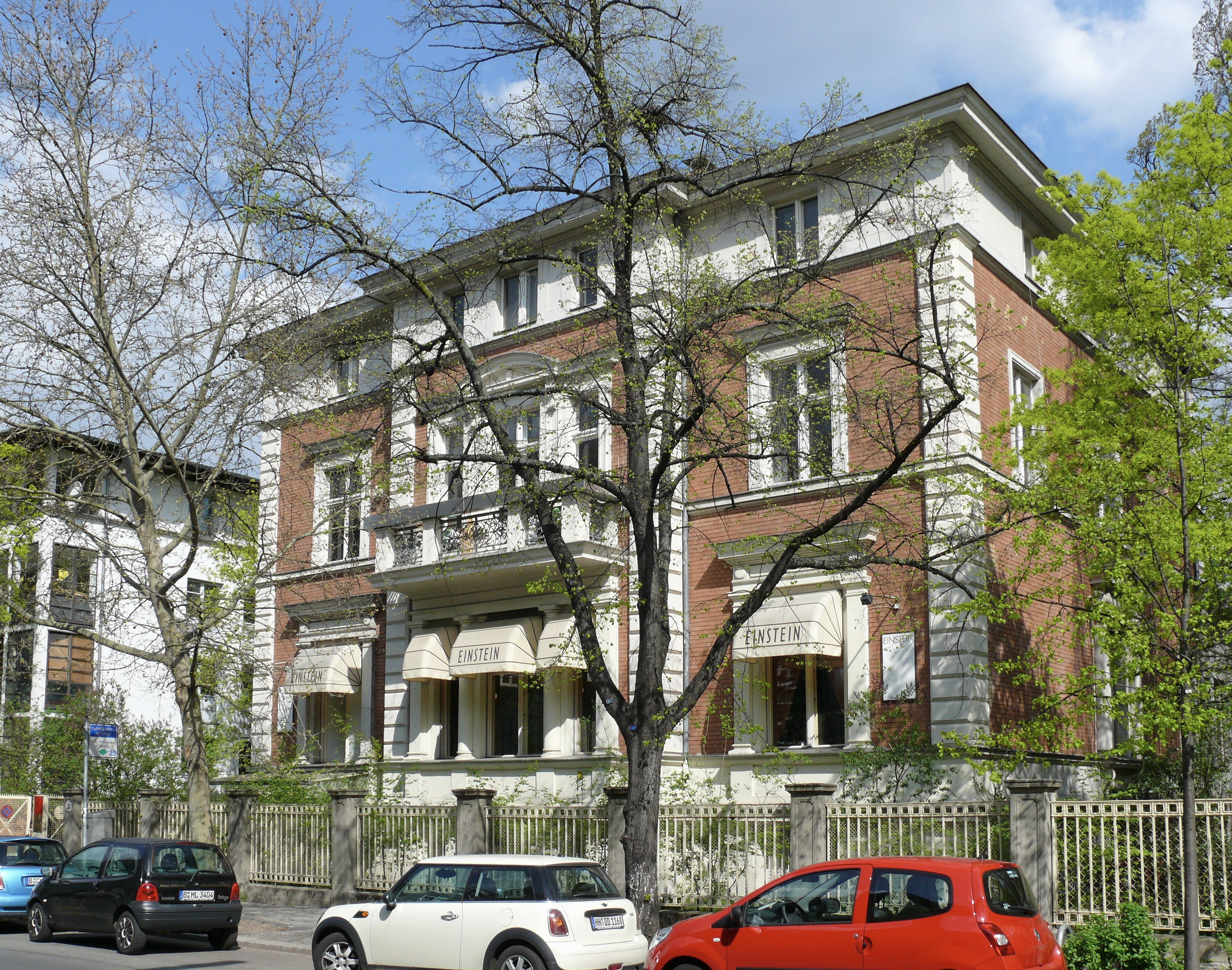 Berlin-Tiergarten Kurfürstenstraße Café Einstein